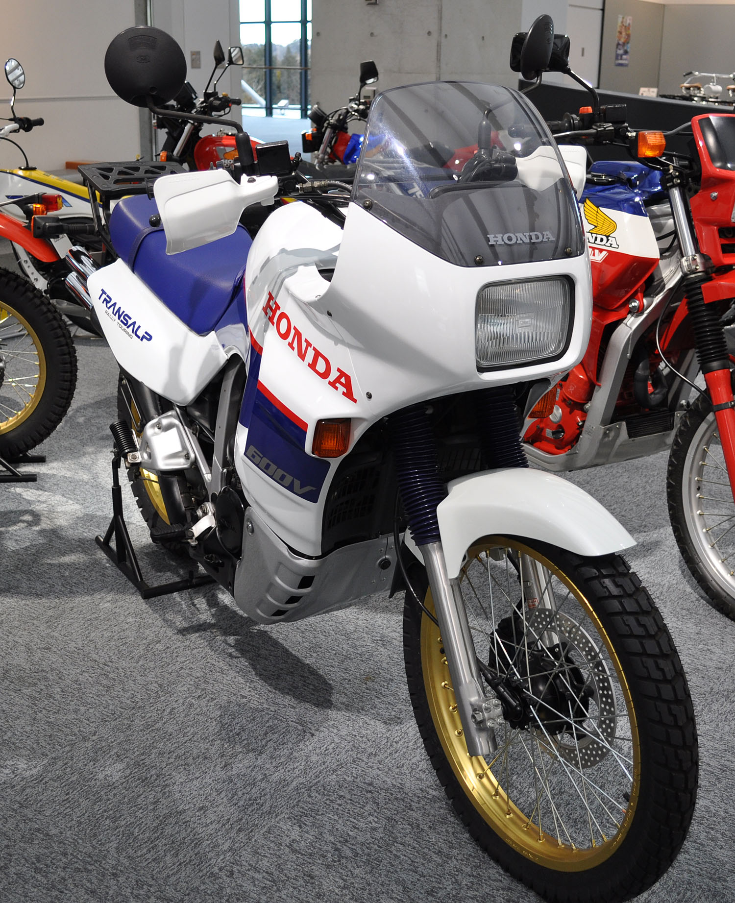 HONDA TRANSALP 600V (1987)